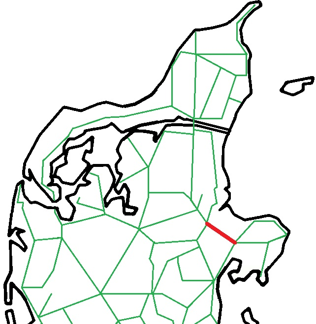 Map of railways in Northern Jutland in Denmark with the state railway Randers-Ryomgård-banen in red.